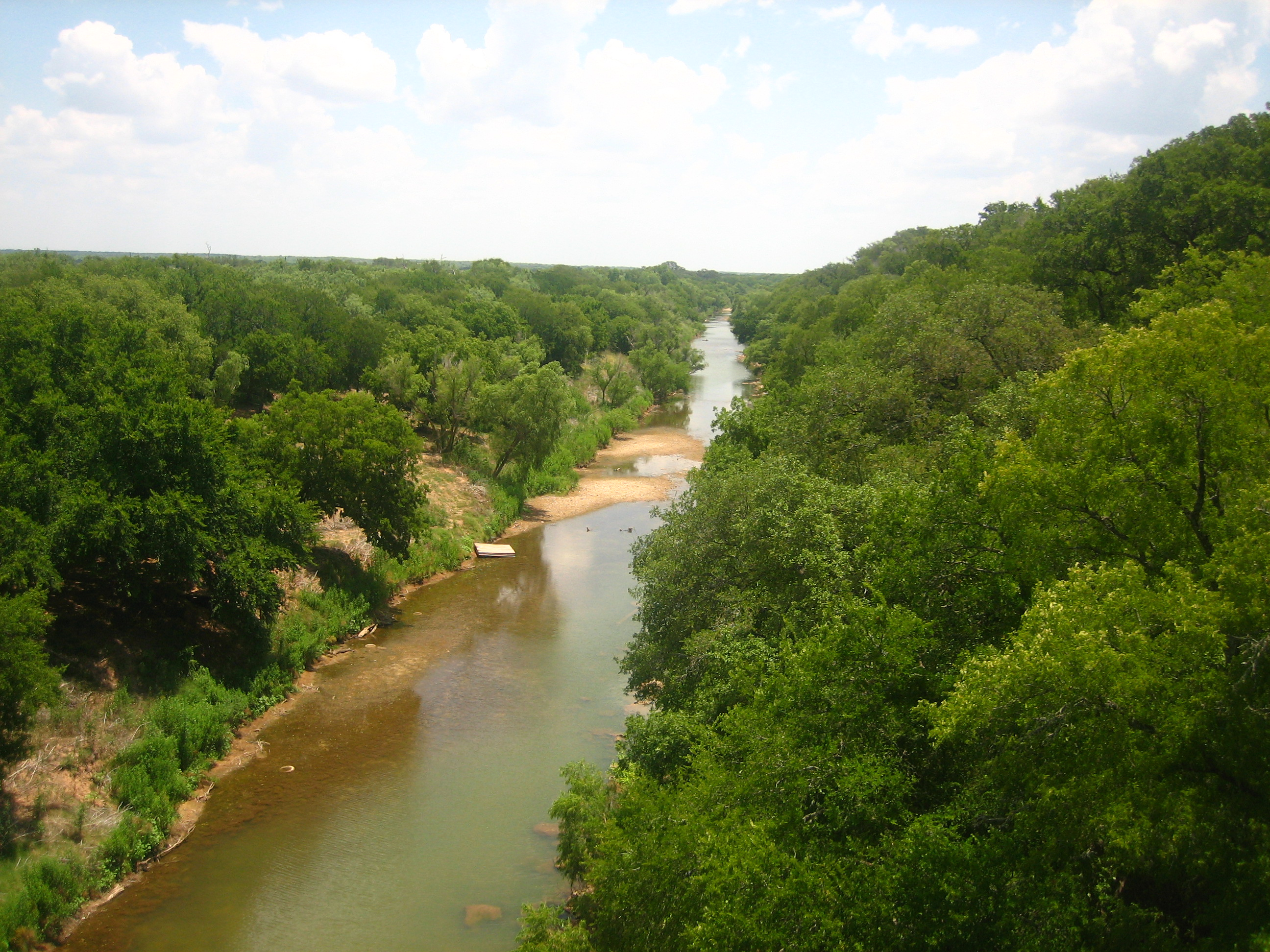 I took photo on July 17, 2008.Billy Hathorn (talk) 15:24, 26 July 2008 (UTC)